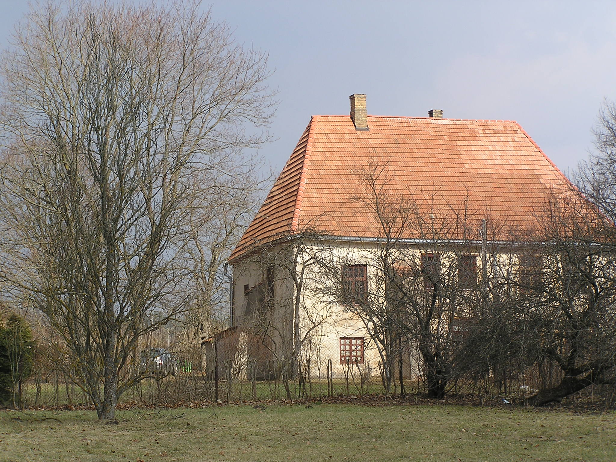 Transmitter La Dole